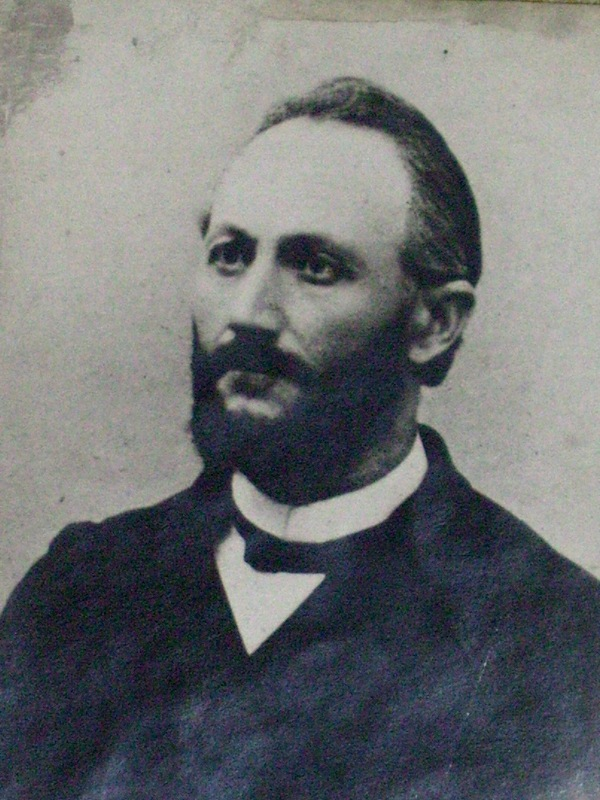 Taken before 1915